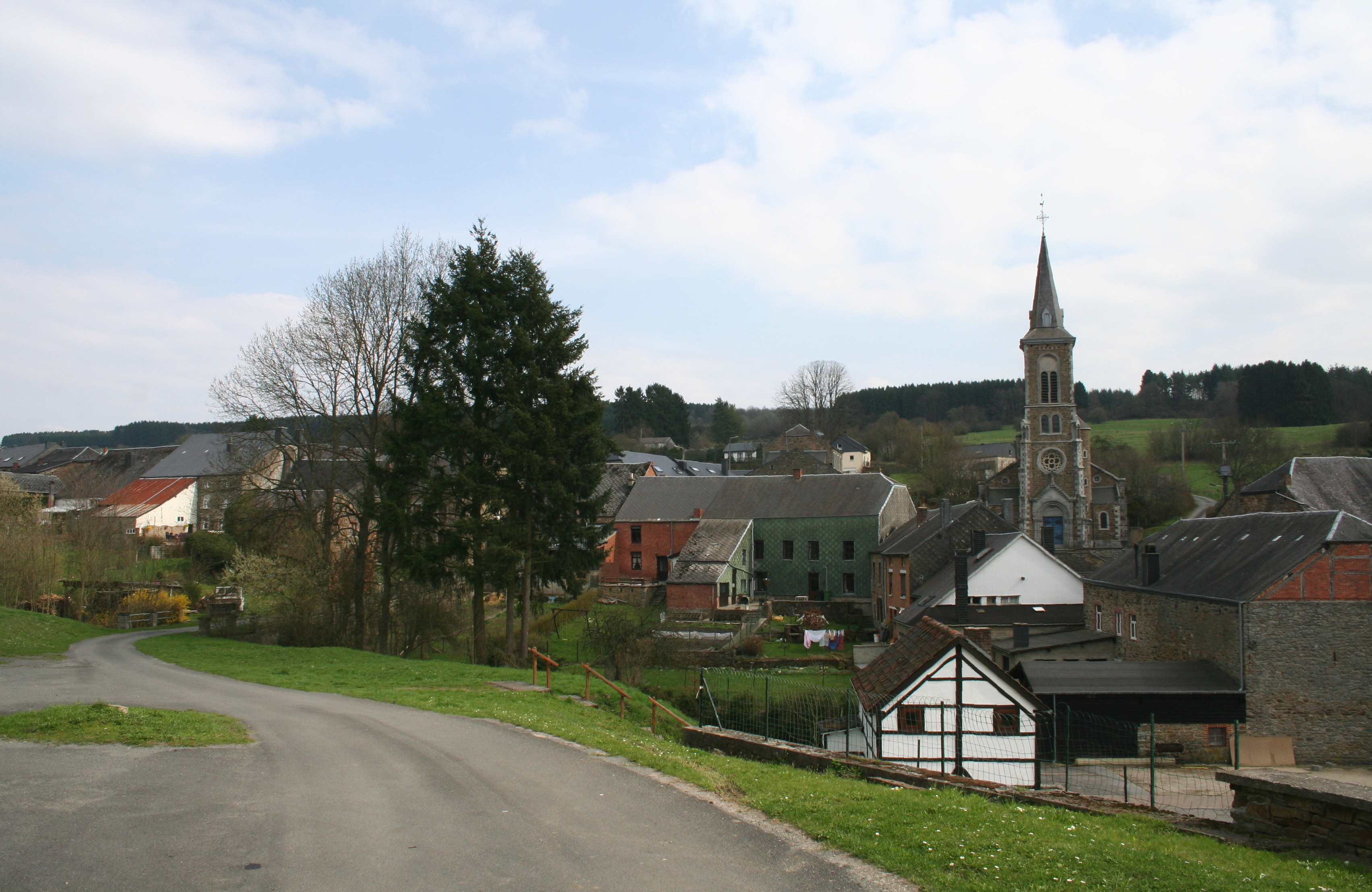 Vencimont (Belgium), the center of the village.